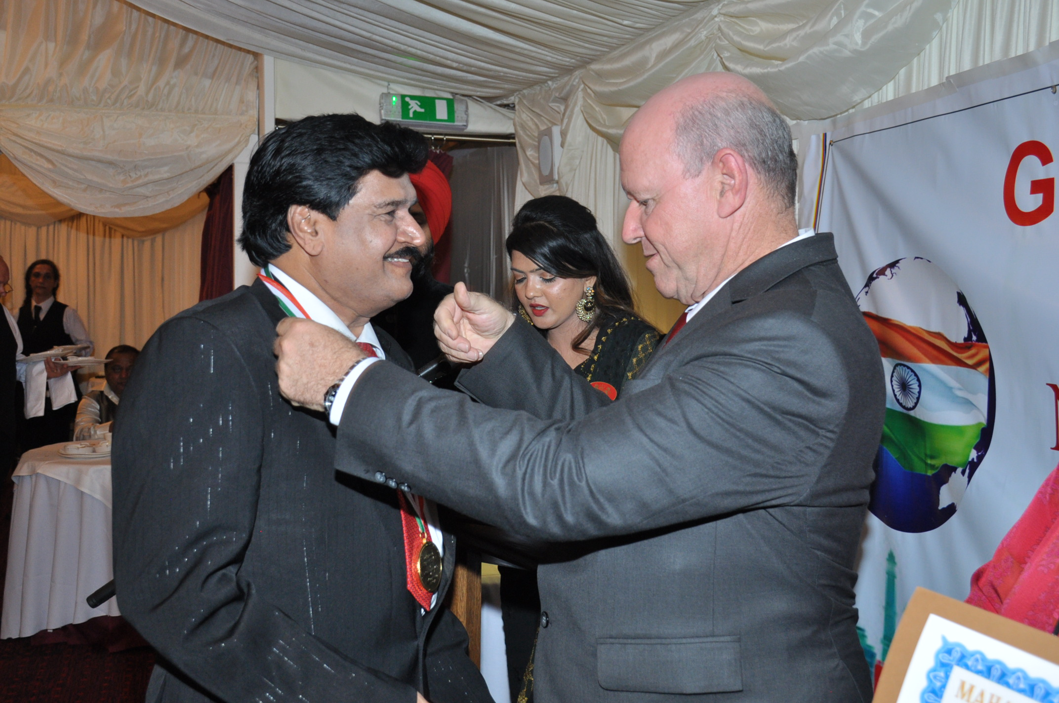 Prof.Dr.K.Surya Rao recieving Mahatma Gandhi Pravasi Samman Award at the House of Lords,London